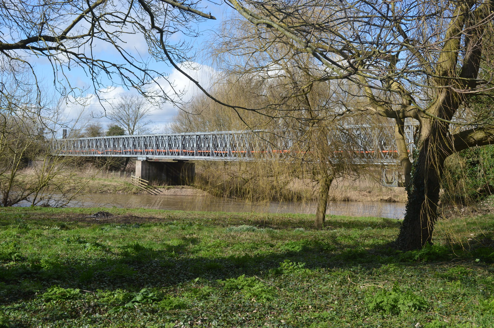 Temporary bridge over River Trent